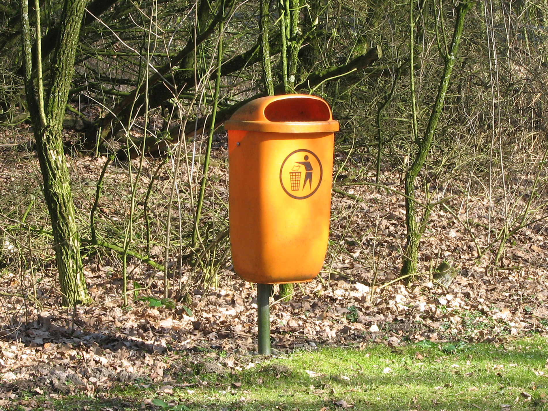 Trashcan in a park